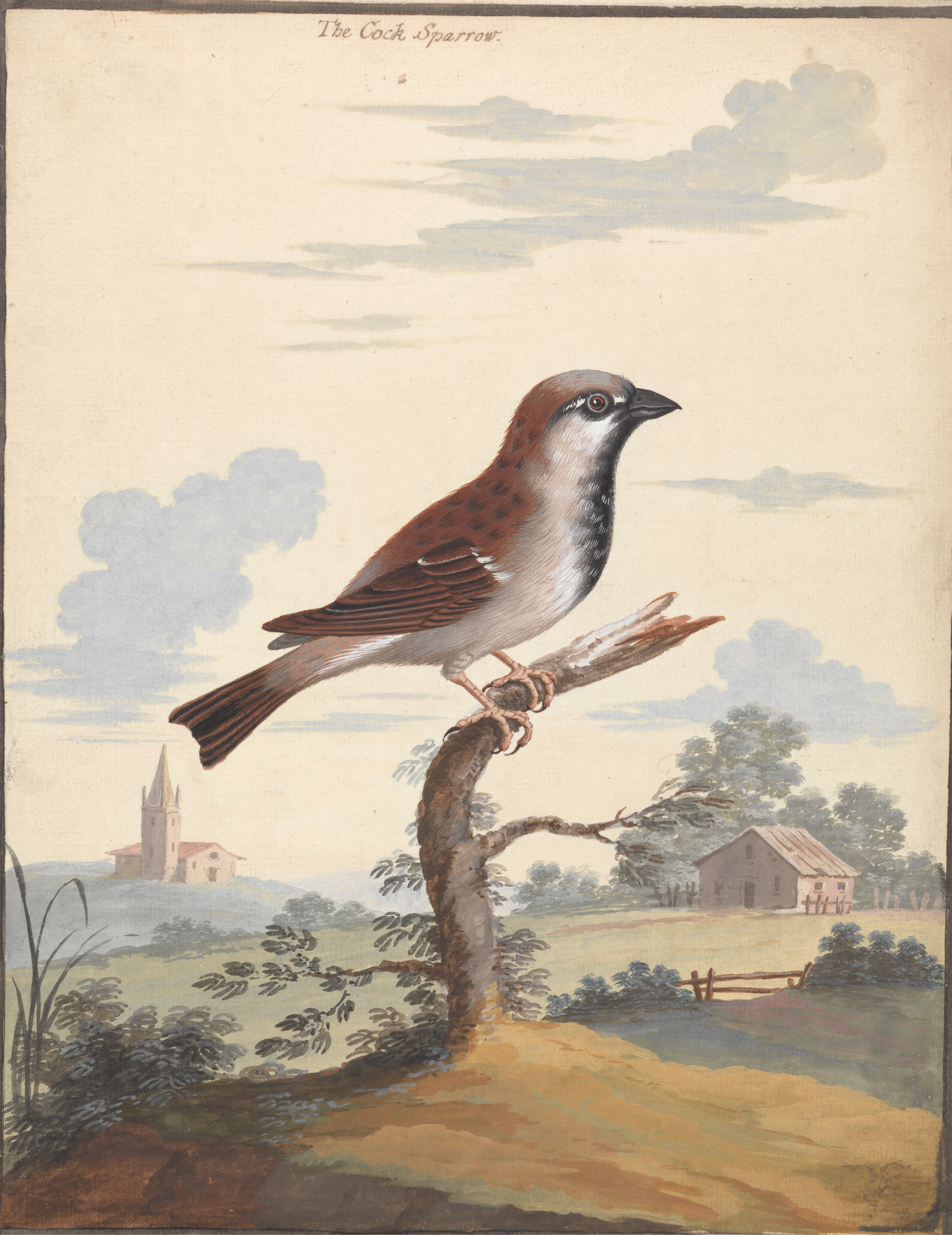 "The Cock Sparrow," undated, by the British ornithologist George Edwards (1694-1773). Gouache and graphite on cream laid paper. 11 5/8 inches × 9 inches (29.5 cm × 22.9 cm). Courtesy of the Paul Mellon Collection, Yale Center for British Art, Yale University, New Haven, Connecticut.